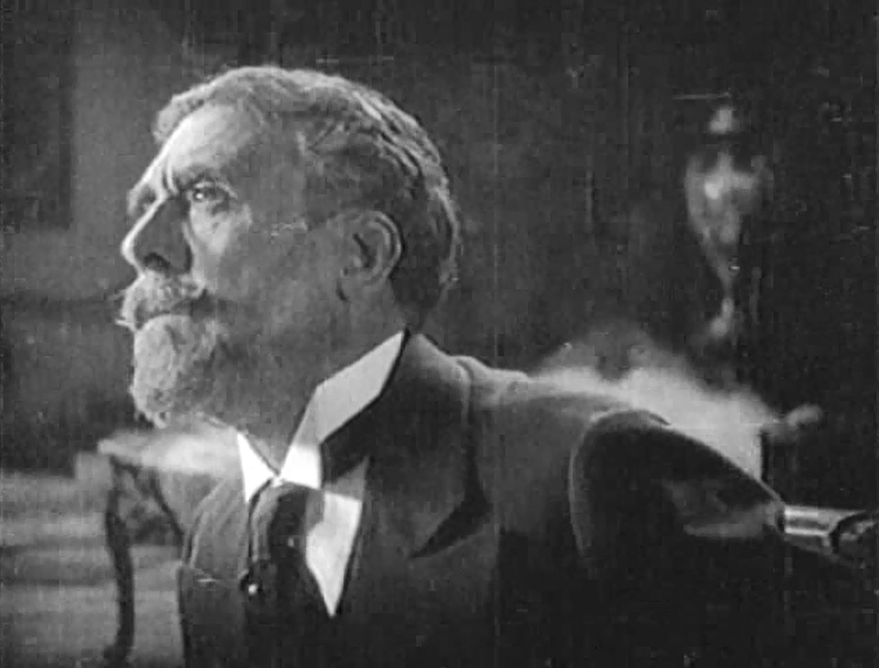 Low resolution screenshot of Eric Mayne (1865–1947) as Victor Grandet in the American public domain film The Conquering Power (1921).